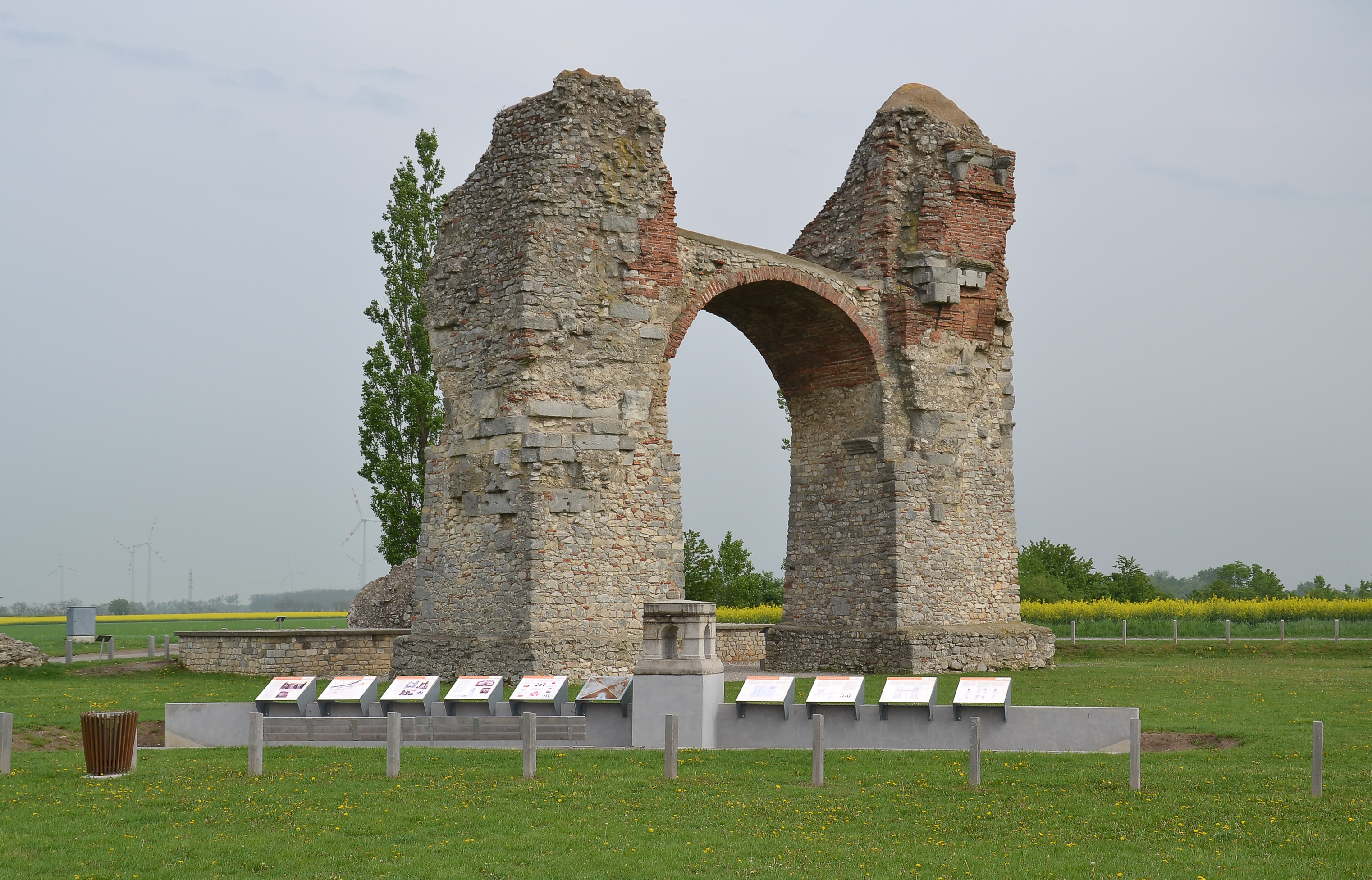 Heidentor, Austria